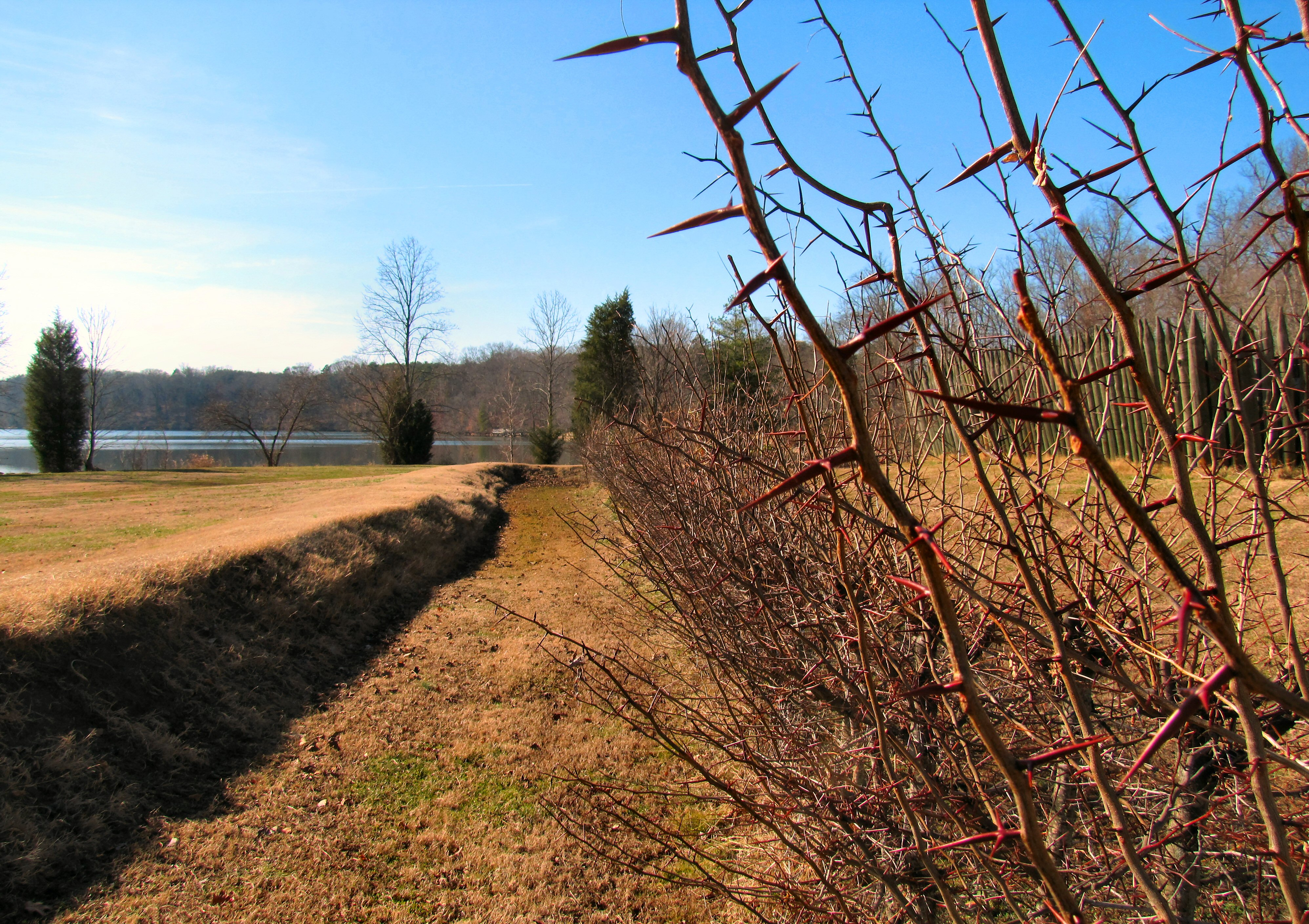 The outer defenses of Fort Loudoun in Monroe County, Tennessee, United States, with fascine wall on the left and ditch with honey locust hedge on the right. The fort's palisade is visible through the hedge on the right.